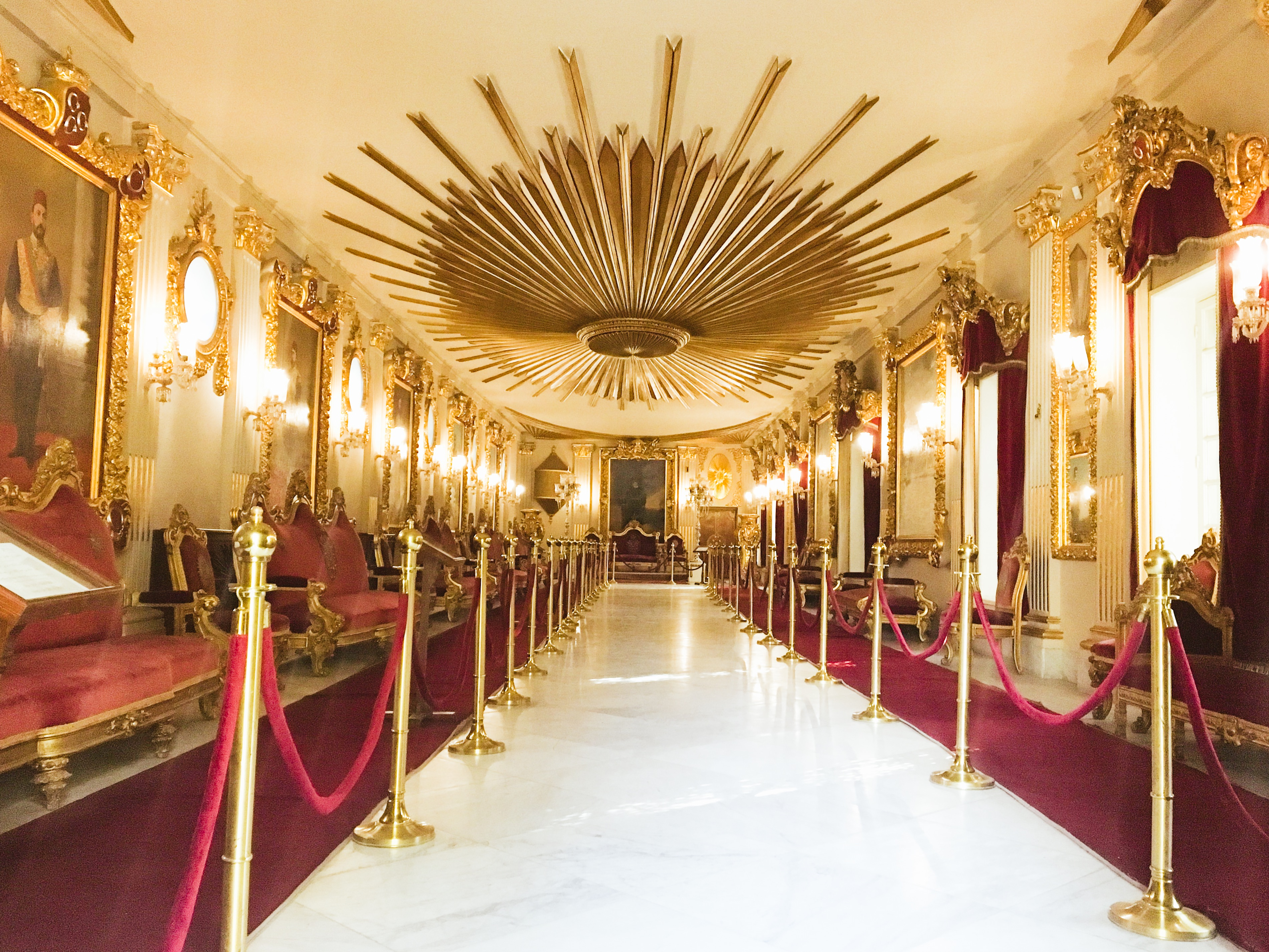 Mohammad Ali Tawfik Palace, Al-Manyal, Cairo. Egypt.